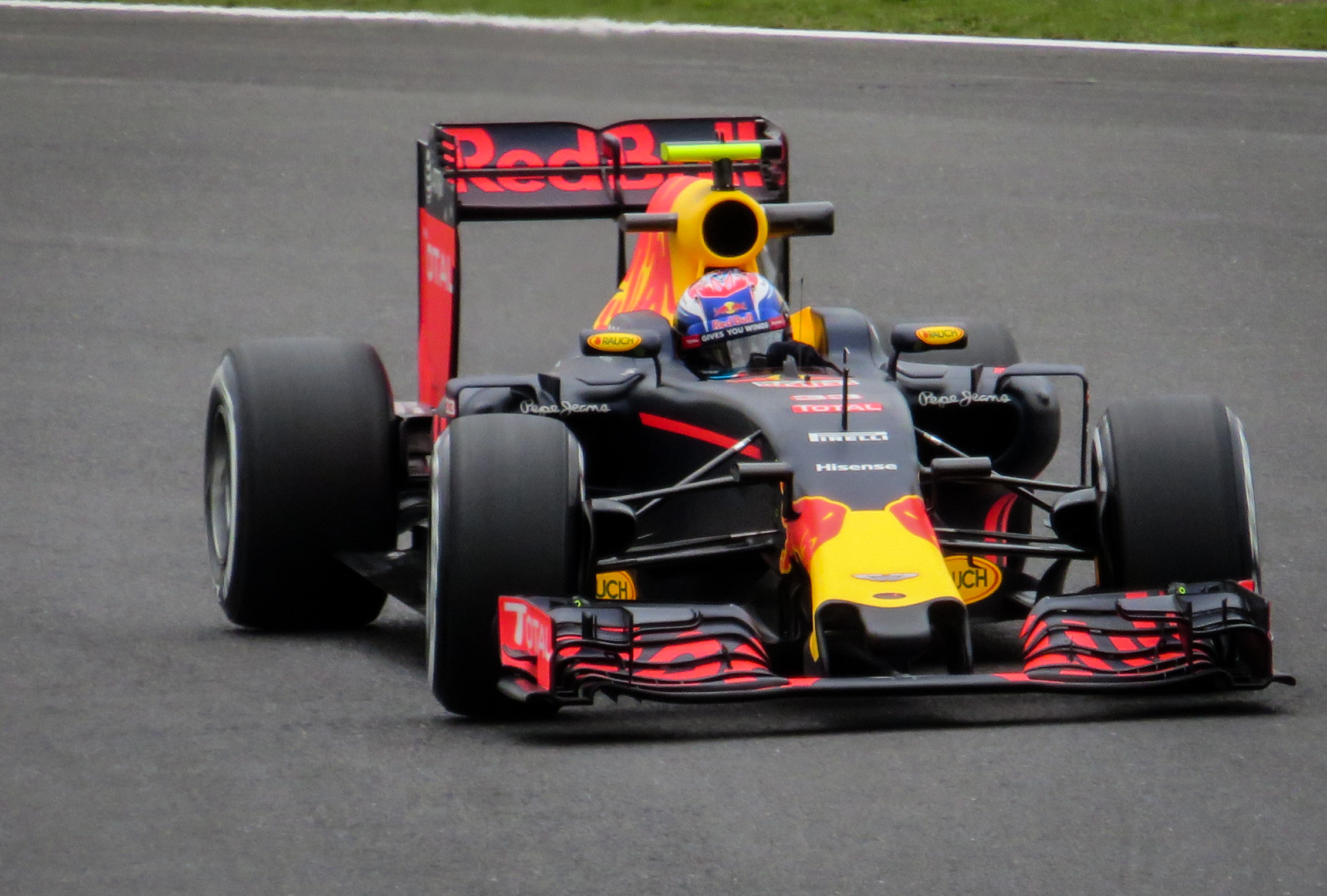 F1 - Red Bull Racing - Max Verstappen